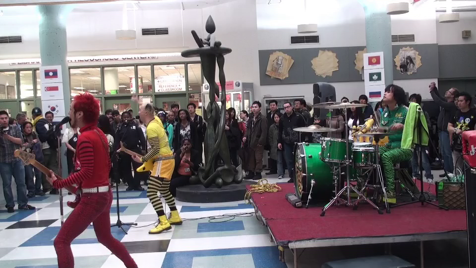 Peelander-Z playing at the Asian Heritage celebration in New York at LaGuardia Community College